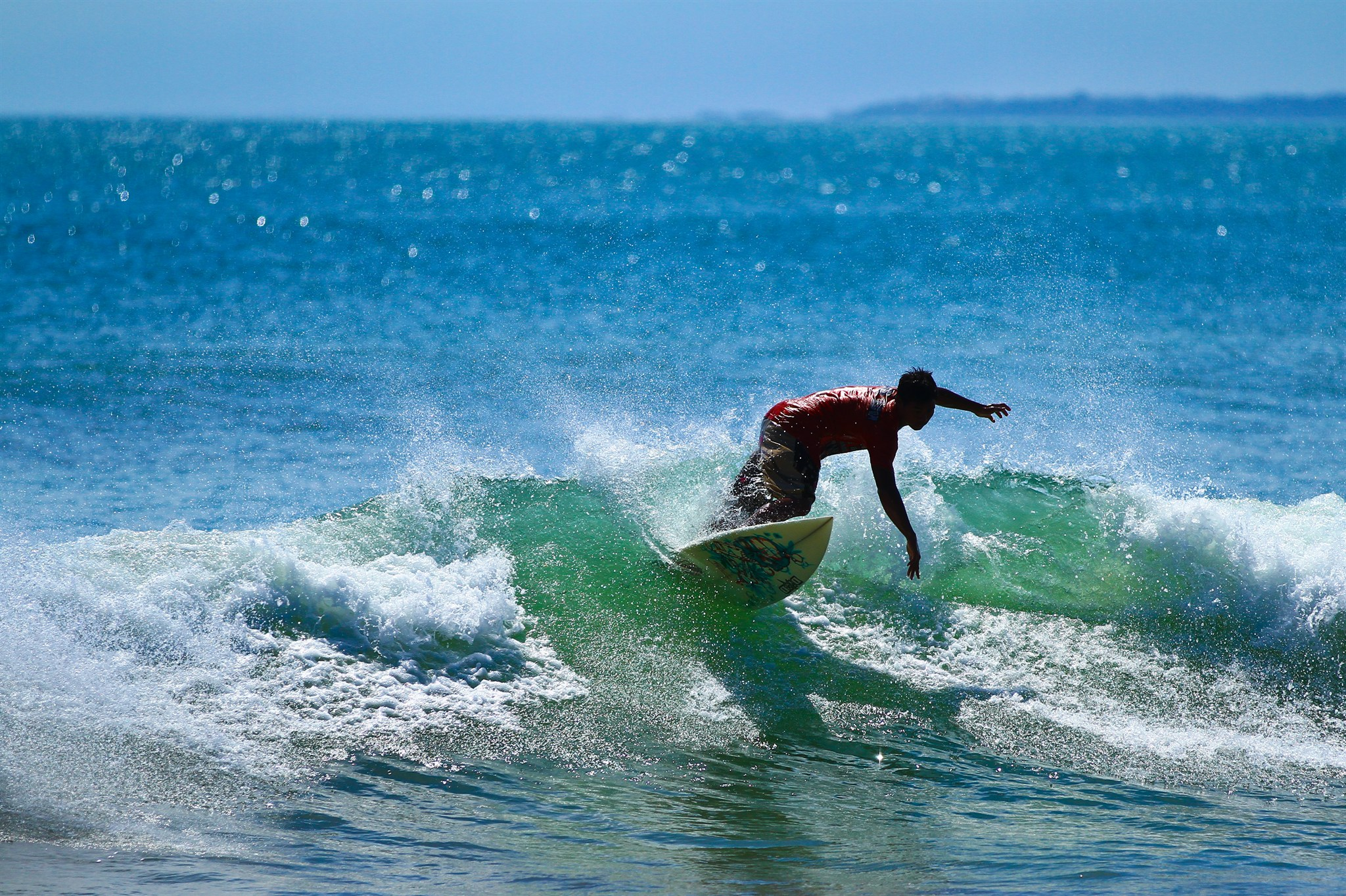 A Indonesian surfer in Kuta, Indonesia.